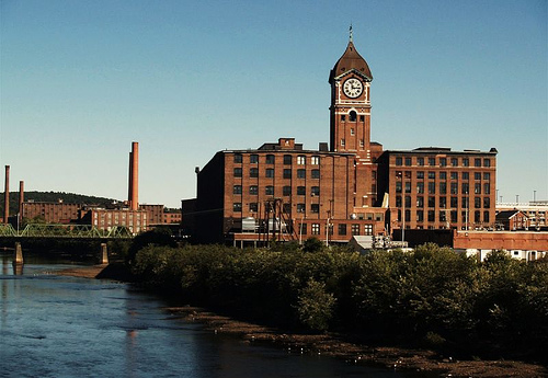 Ayer Mill, Lawrence, Massachusetts with Merrimack River